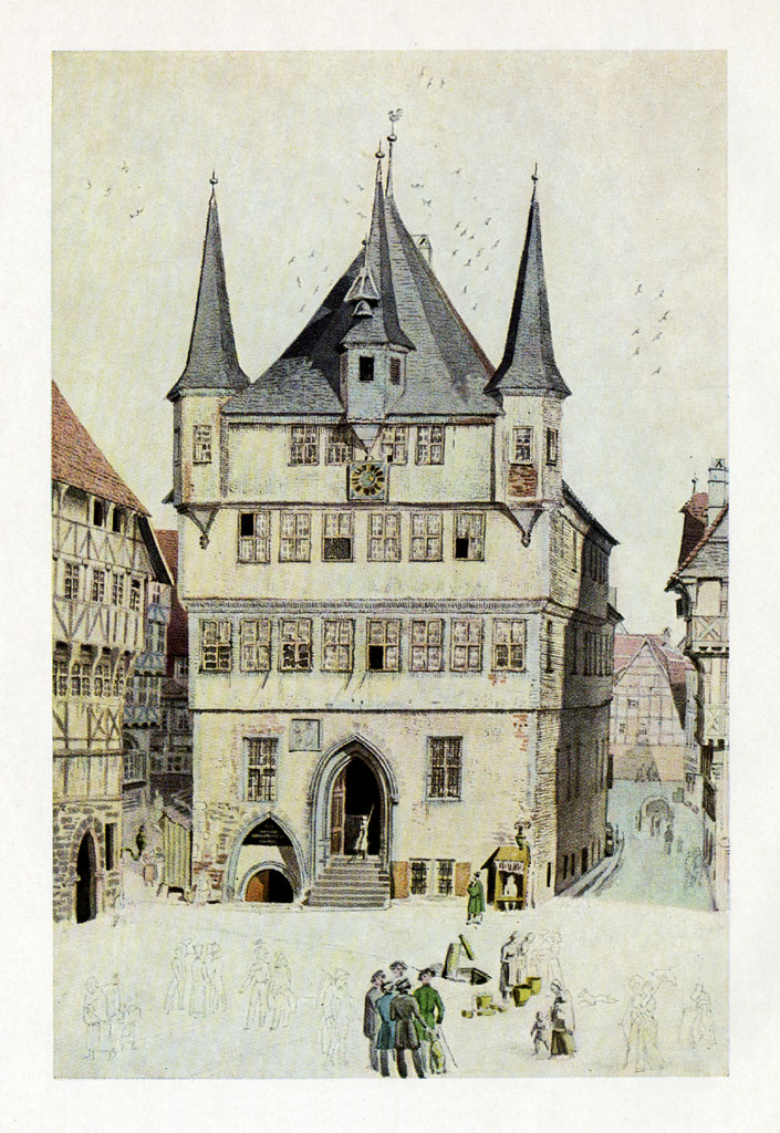 Old town hall in Kassel, built in 1404, demolished in 1837